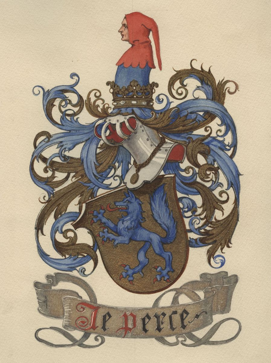 Coat of Arms of Otto Kapp von Gültstein